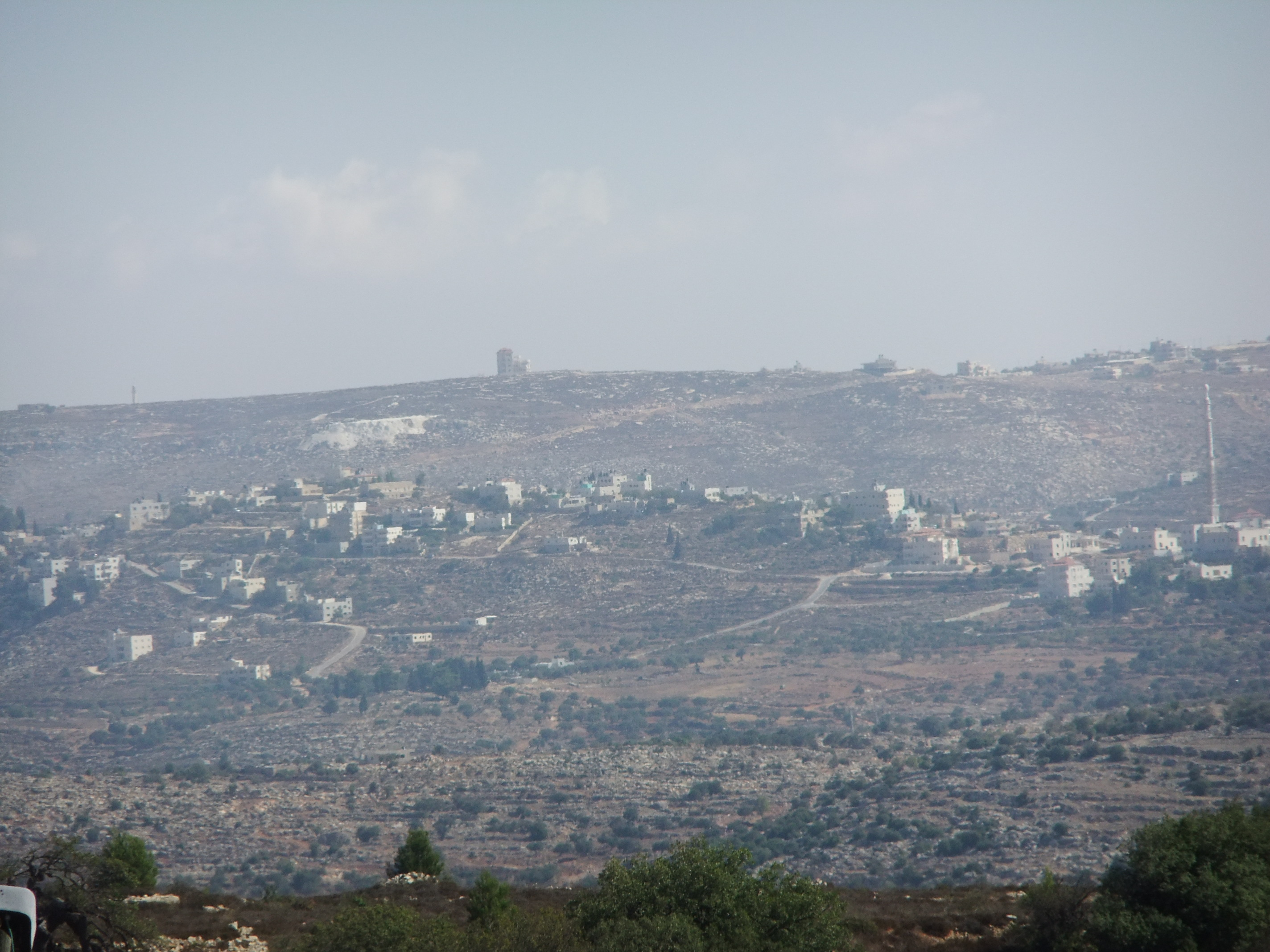 North Silwad taken from the Artis (view from the west)